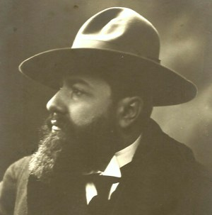 Carl Hollitzer cut out from original card board fotography. Original is owned by